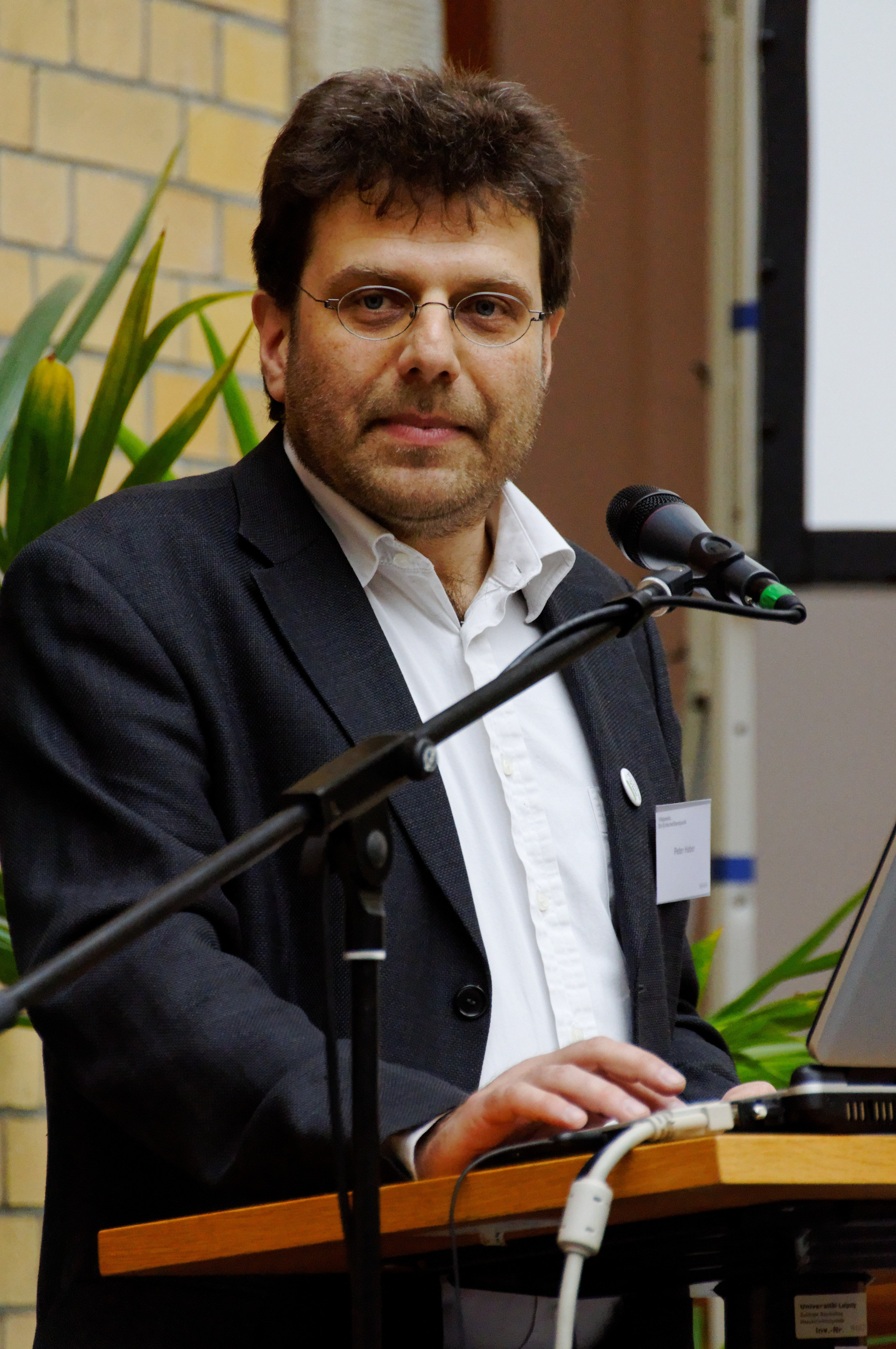 Wikipedia: A critical point of view. CPOV-Conference in Leipzig Germany; September 2010 Peter Haber